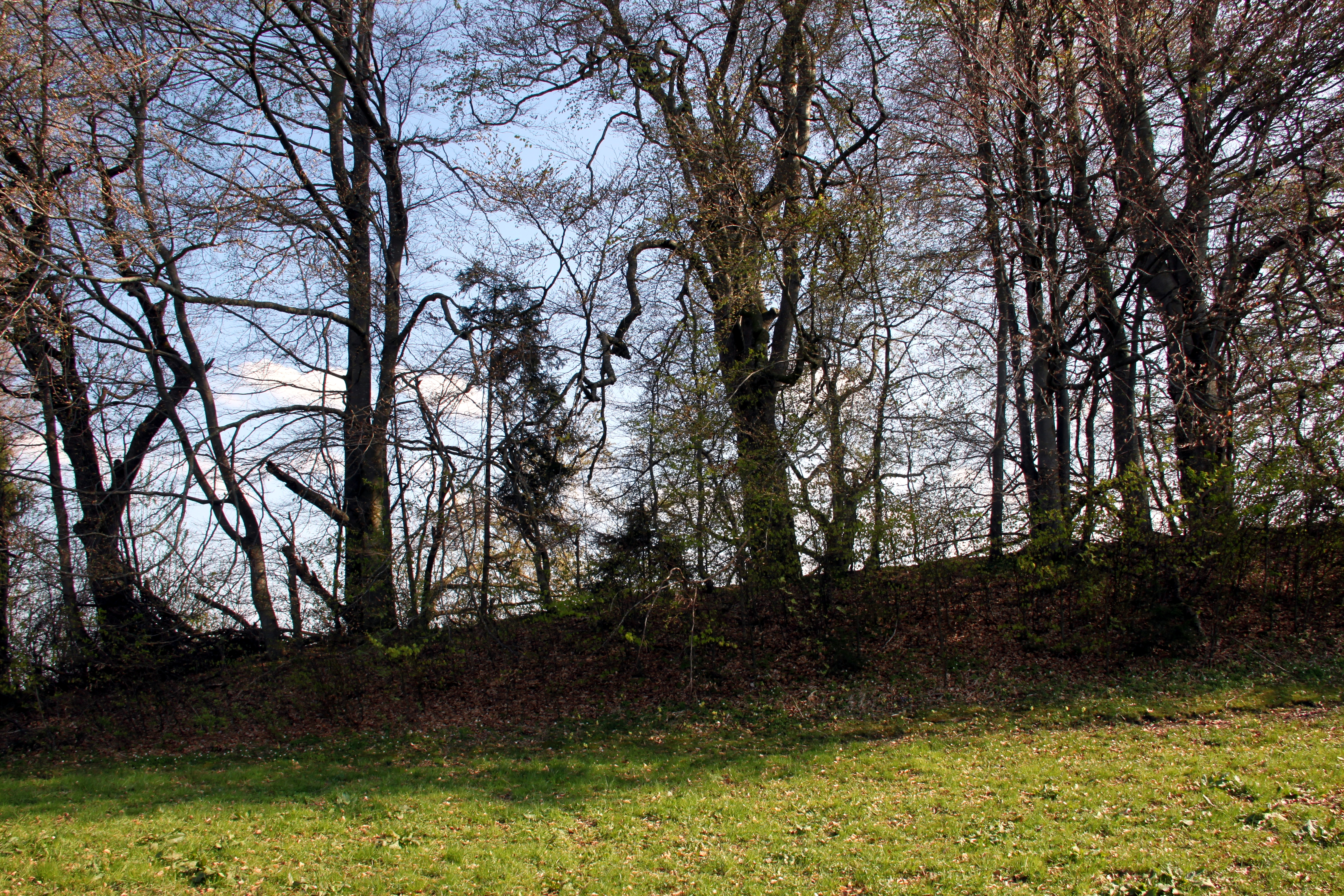 Supposed artificial wall in the southeast of the Fentbachschanze nemeton.